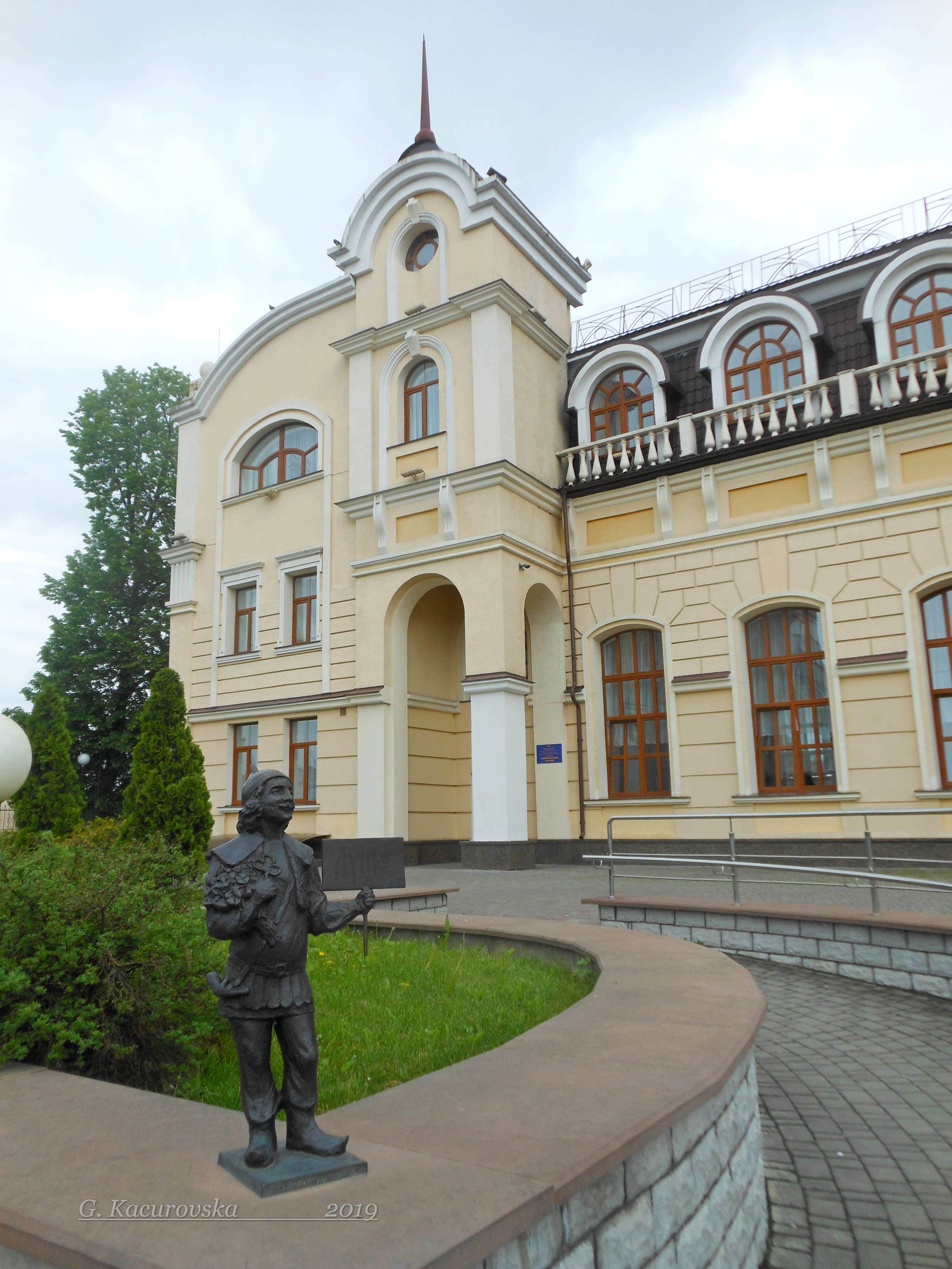 Mini sculpture in Lutsk, railway station